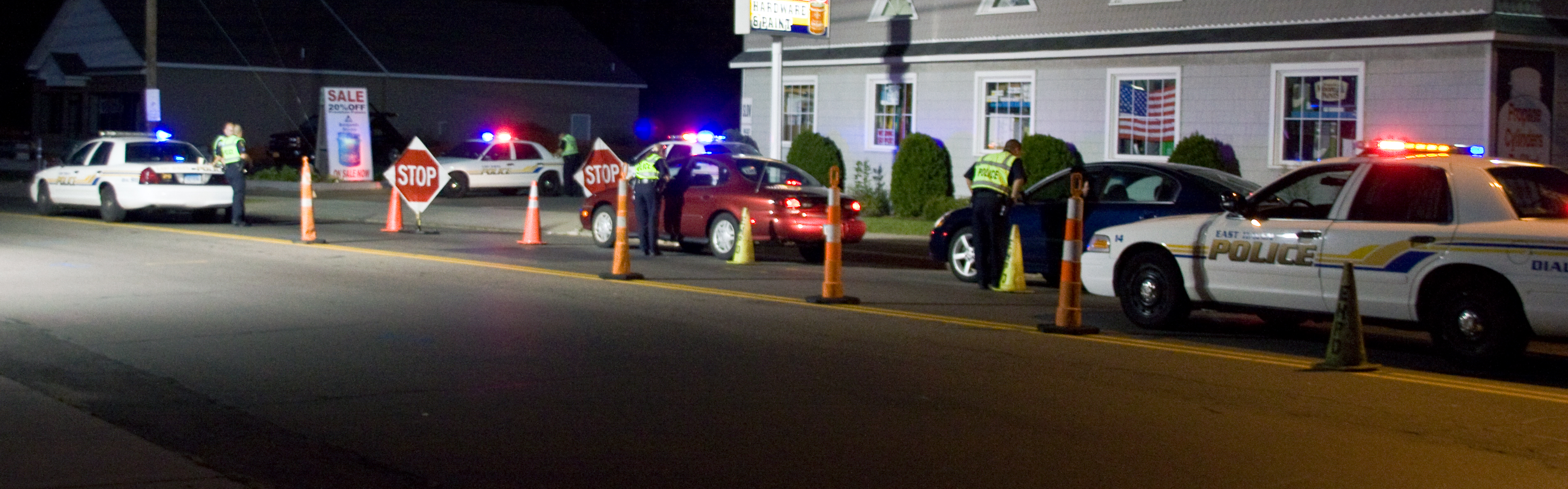 A sobriety checkpoint in East Haven, CT. Also known as DWI Enforcement